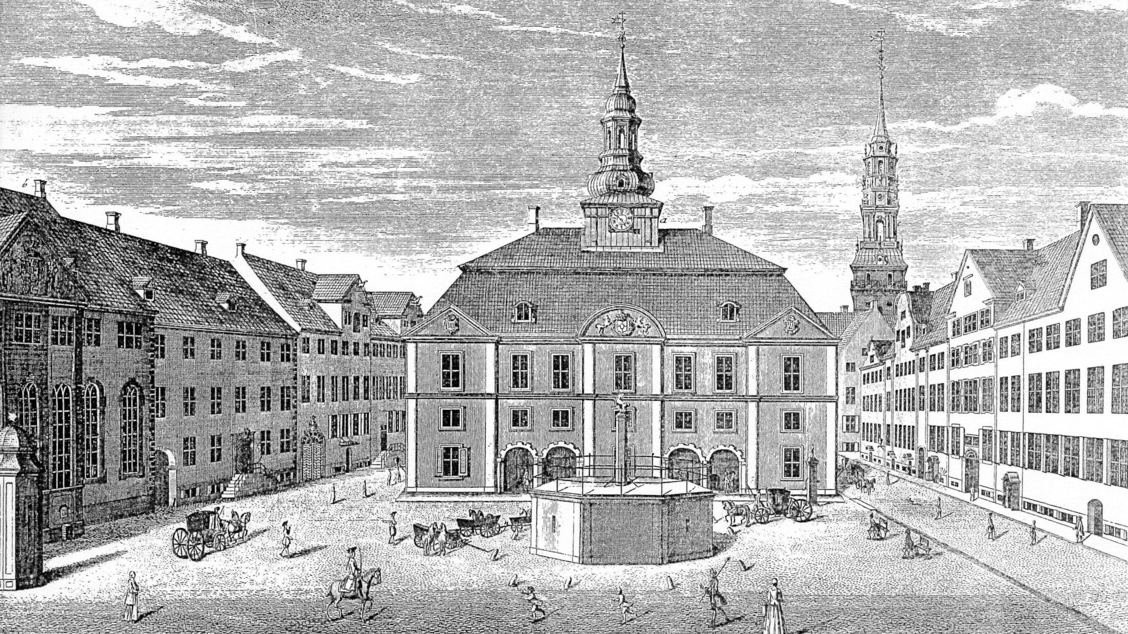 Nytorv with the old city hall (one of them) in Copenhagen, Denmark. Kobberstik.